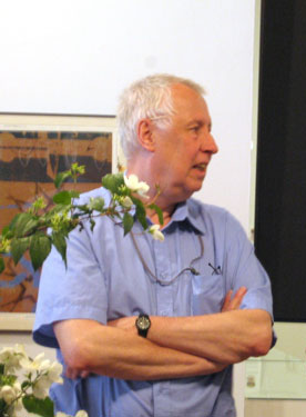 Hans-Peter Feldman conceptualist artist and photographer